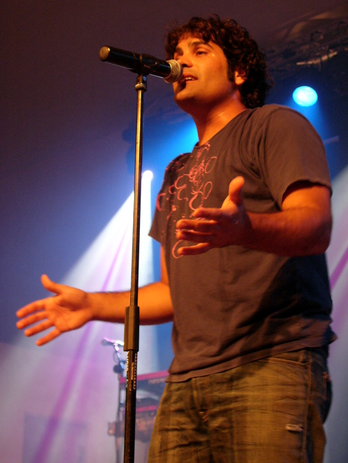 Majorcan singer Pau Debon performing live with Antònia Font in Sueca